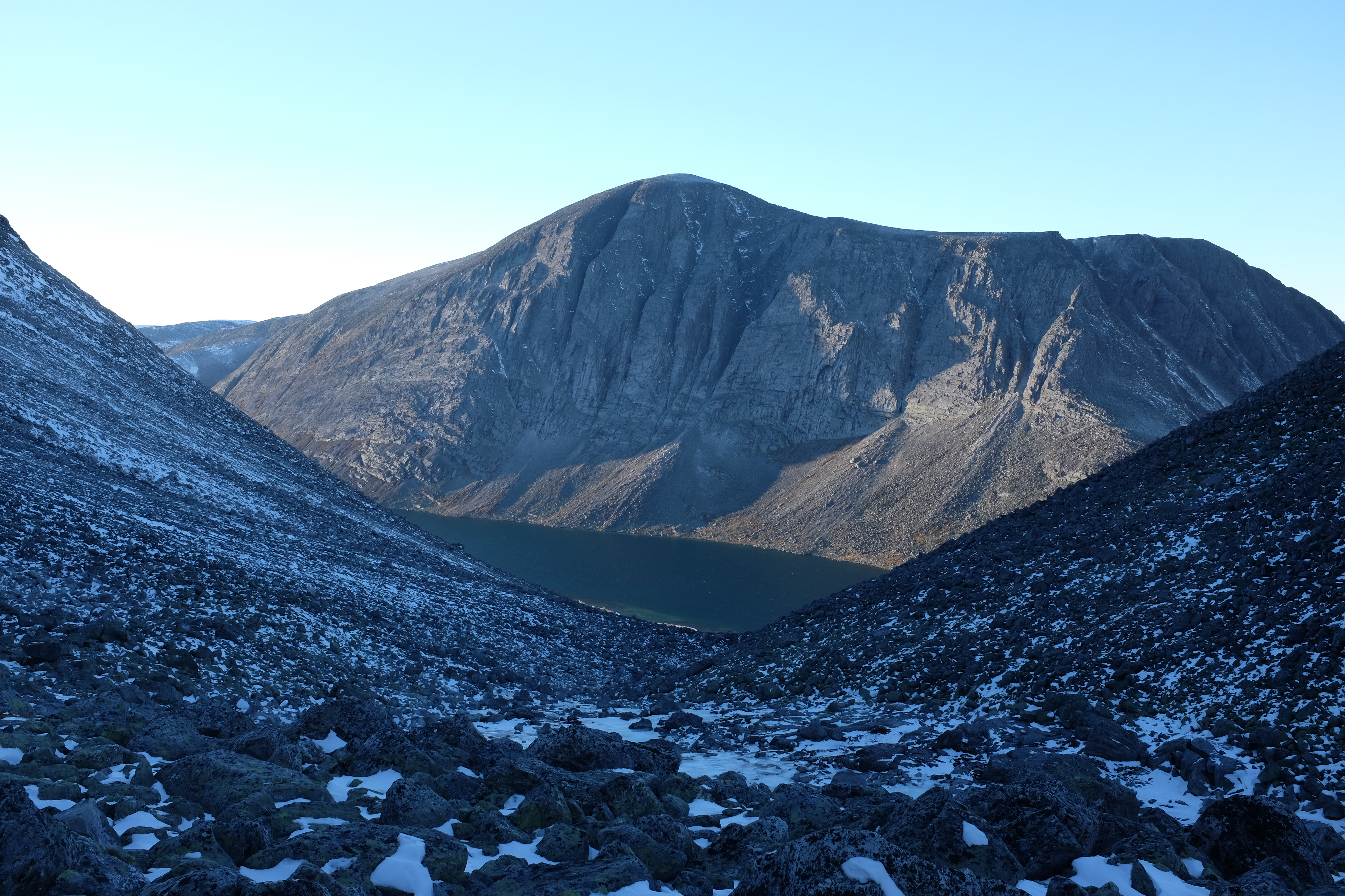 Glen down on to Langvann lake and Drugshøi peak. Dovrefjell-Sunndalsfjella National Park, Norway.